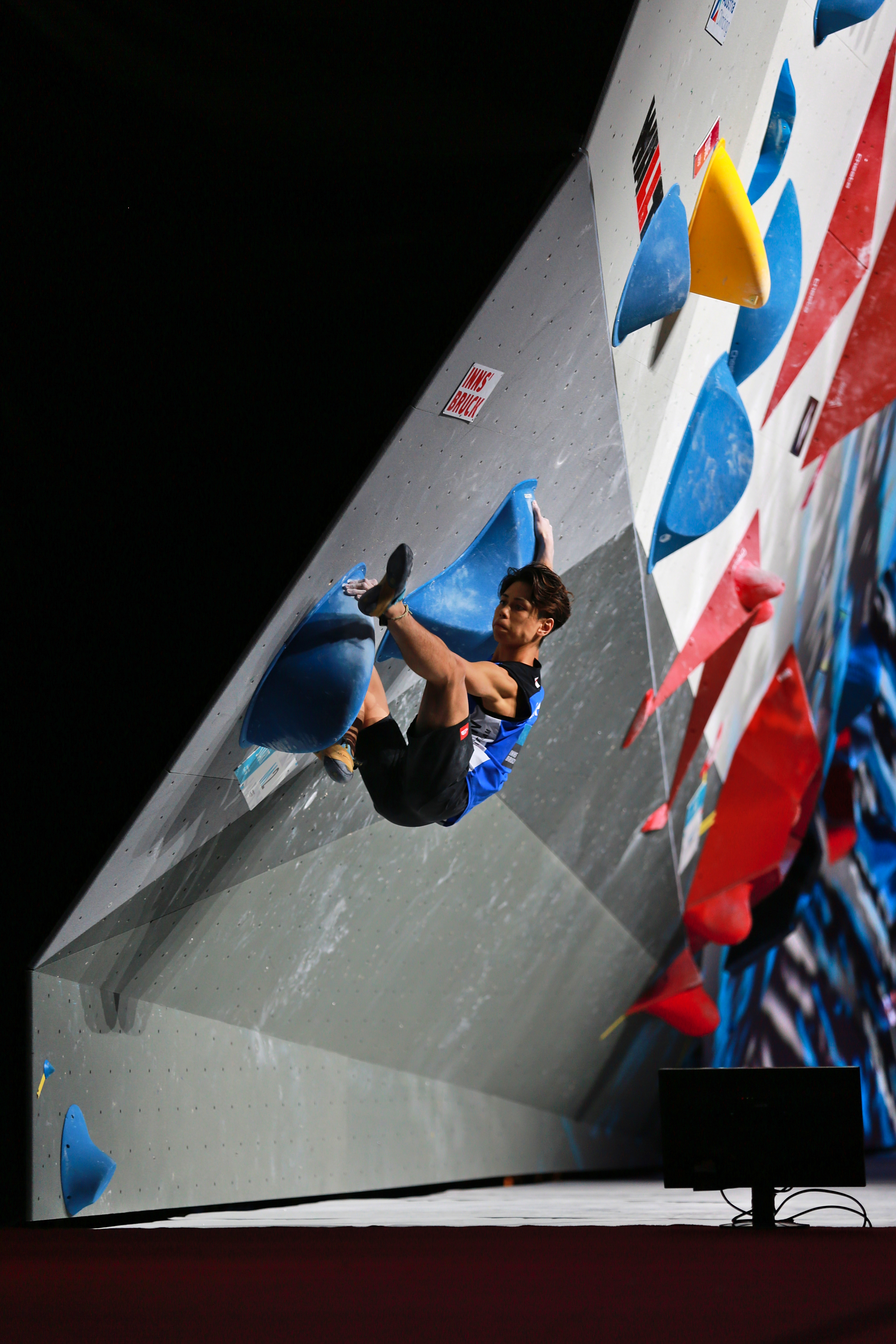 Climbing World Championships 2018 Combined Final Harada